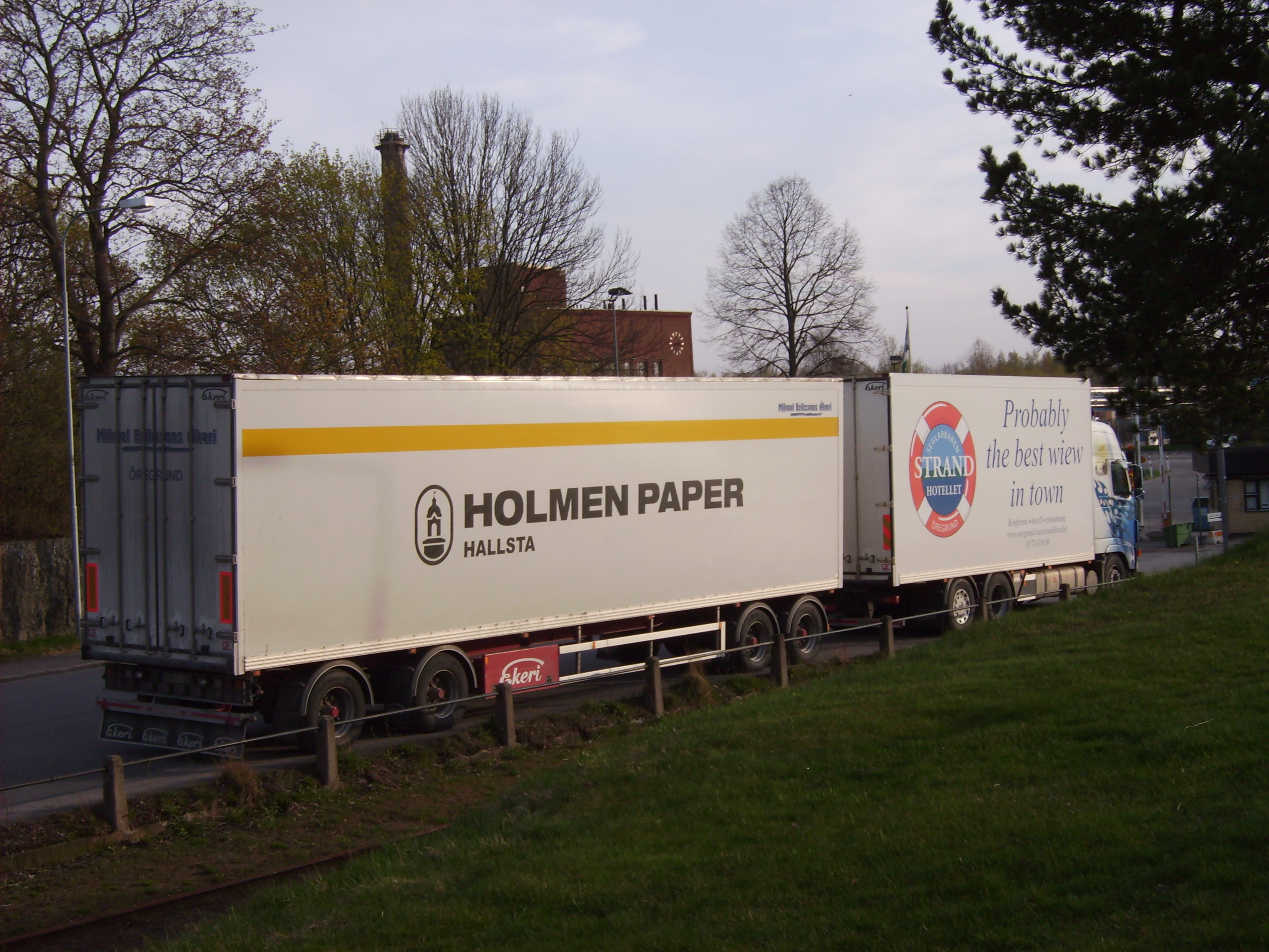 The factory Fiskeby bruk, established 1637, in Fiskeby, Norrköping, Sweden.